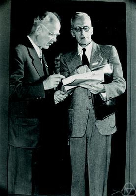 Ott-Heinrich Keller (left), Hellmuth Kneser